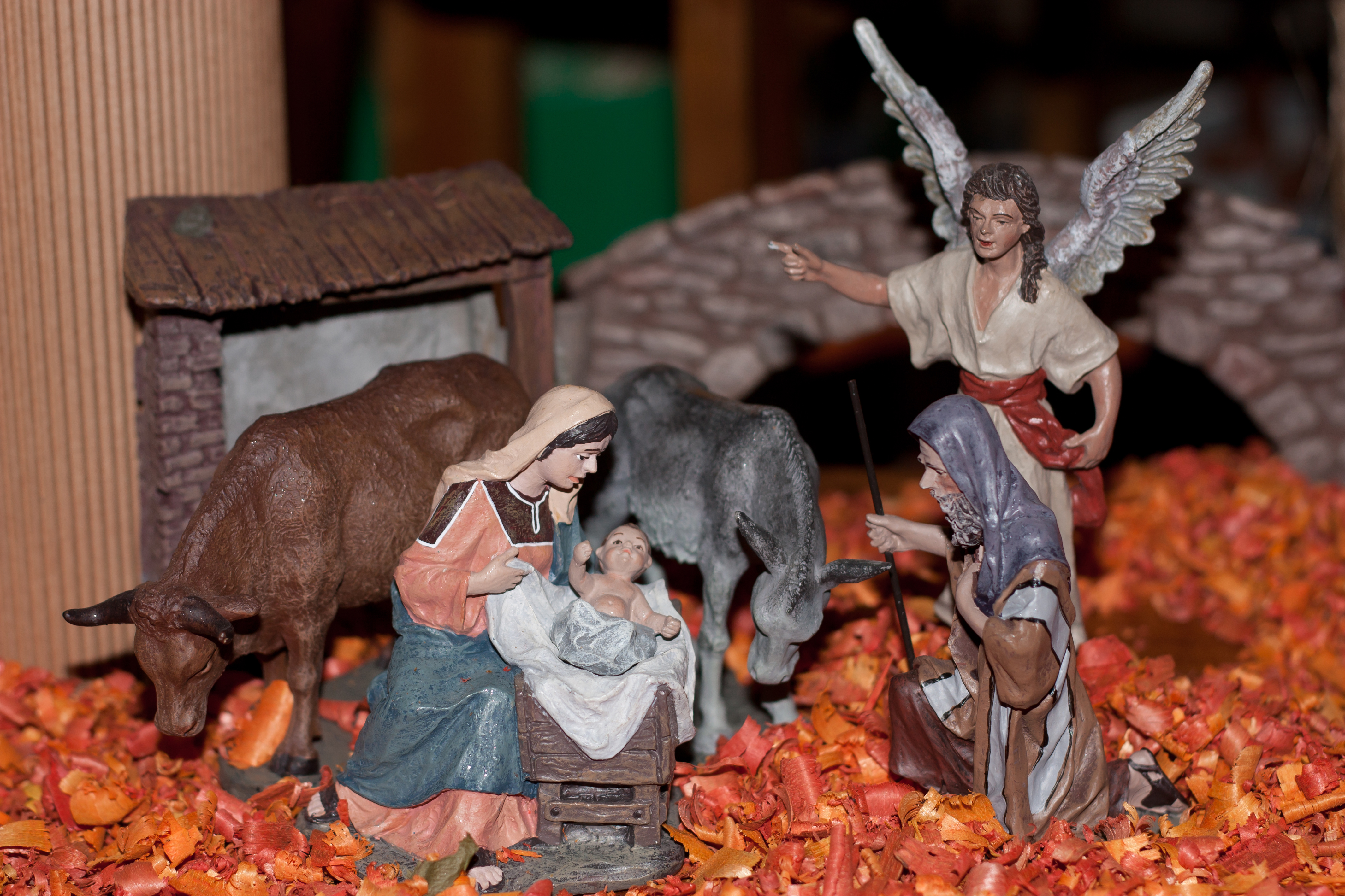 Nativity scene - santons of the Holy Family with an angel.